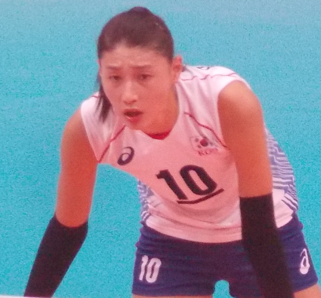 Volleyball at the 2016 Summer Olympics – Women's tournament: South Korea 1x3 Netherlands (19–25, 14–25, 25–23, 20–25).